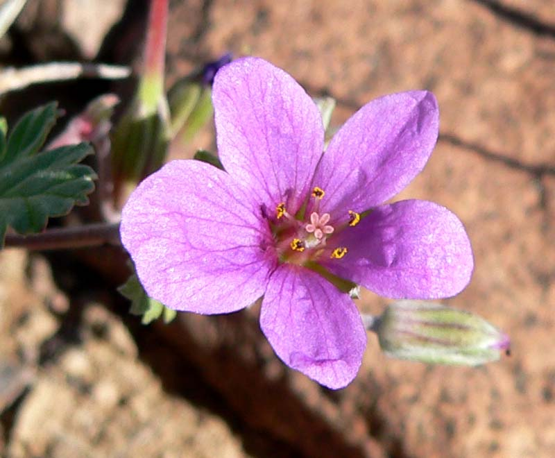 Photo of Erodium texanum near the western (Nevada) shore of Lake Mead